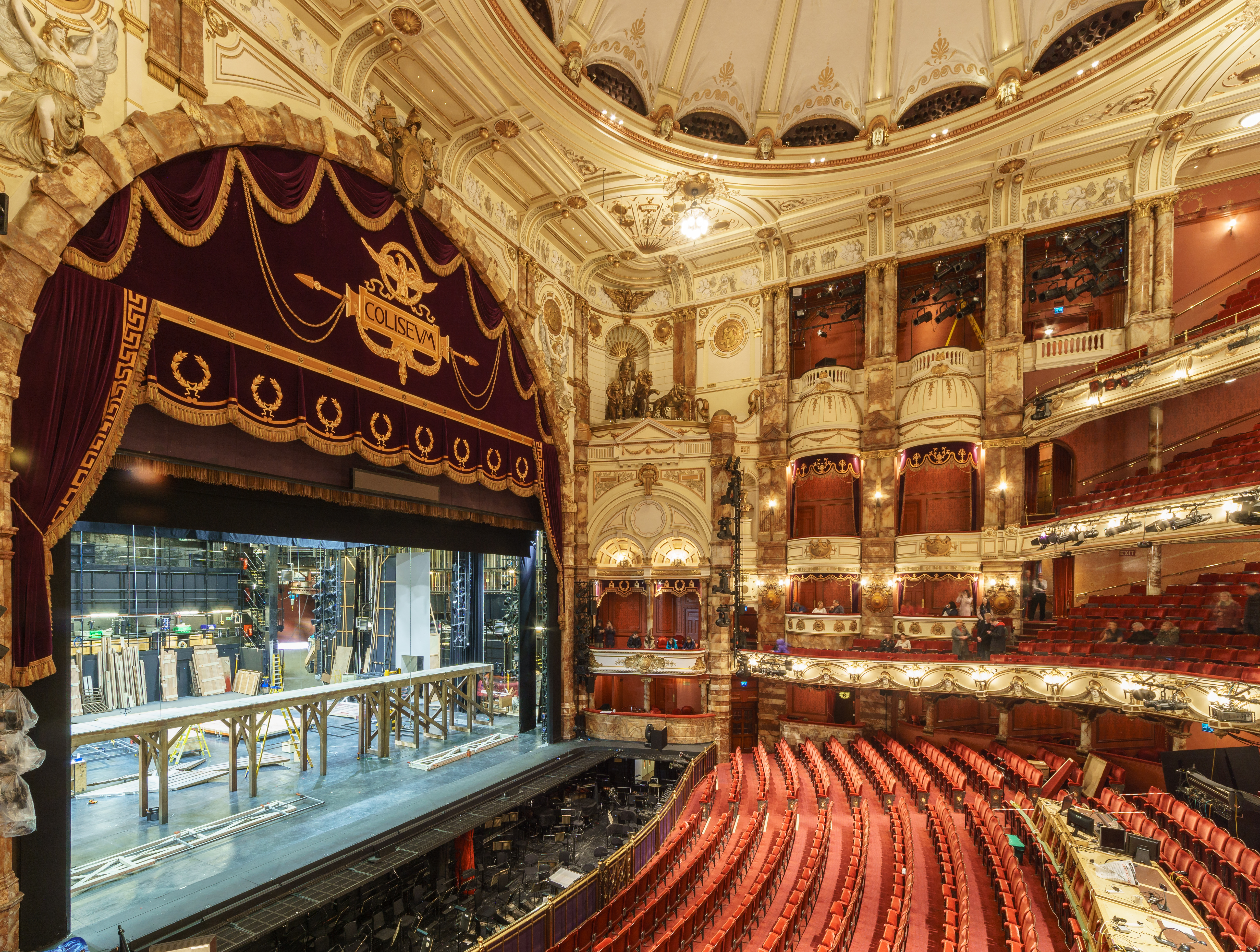 London Coliseum auditorium Wikidata has entry Q1868965 with data related to this item.